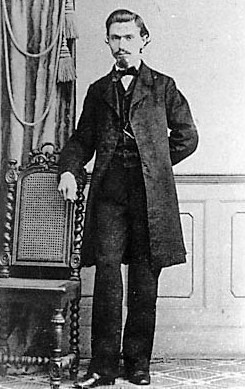 August Bebel im Jahr 1863